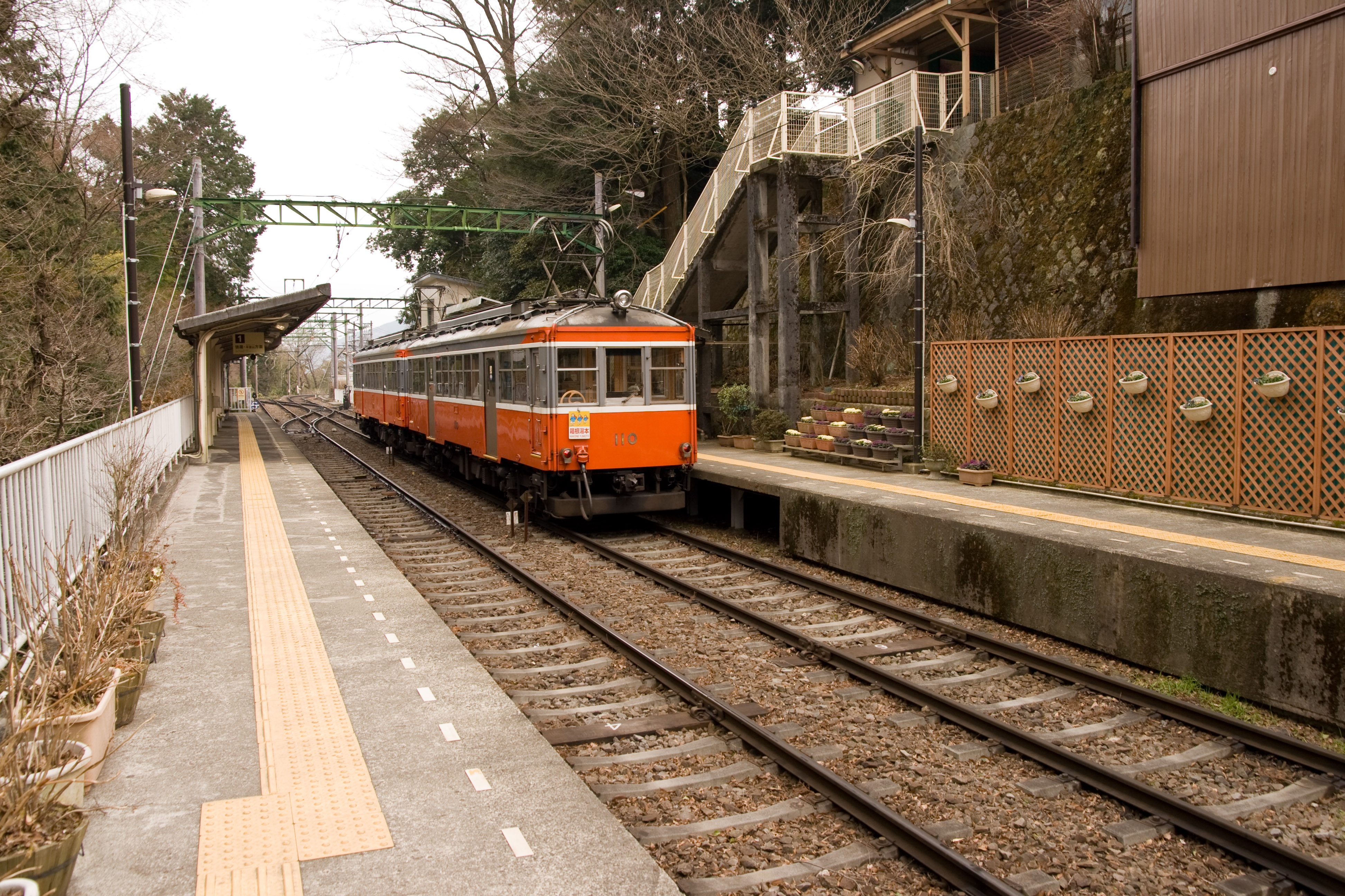 Ōhiradai Station on Hakone Tozan Line, Hakone Town, Kanagawa Pref., Japan.